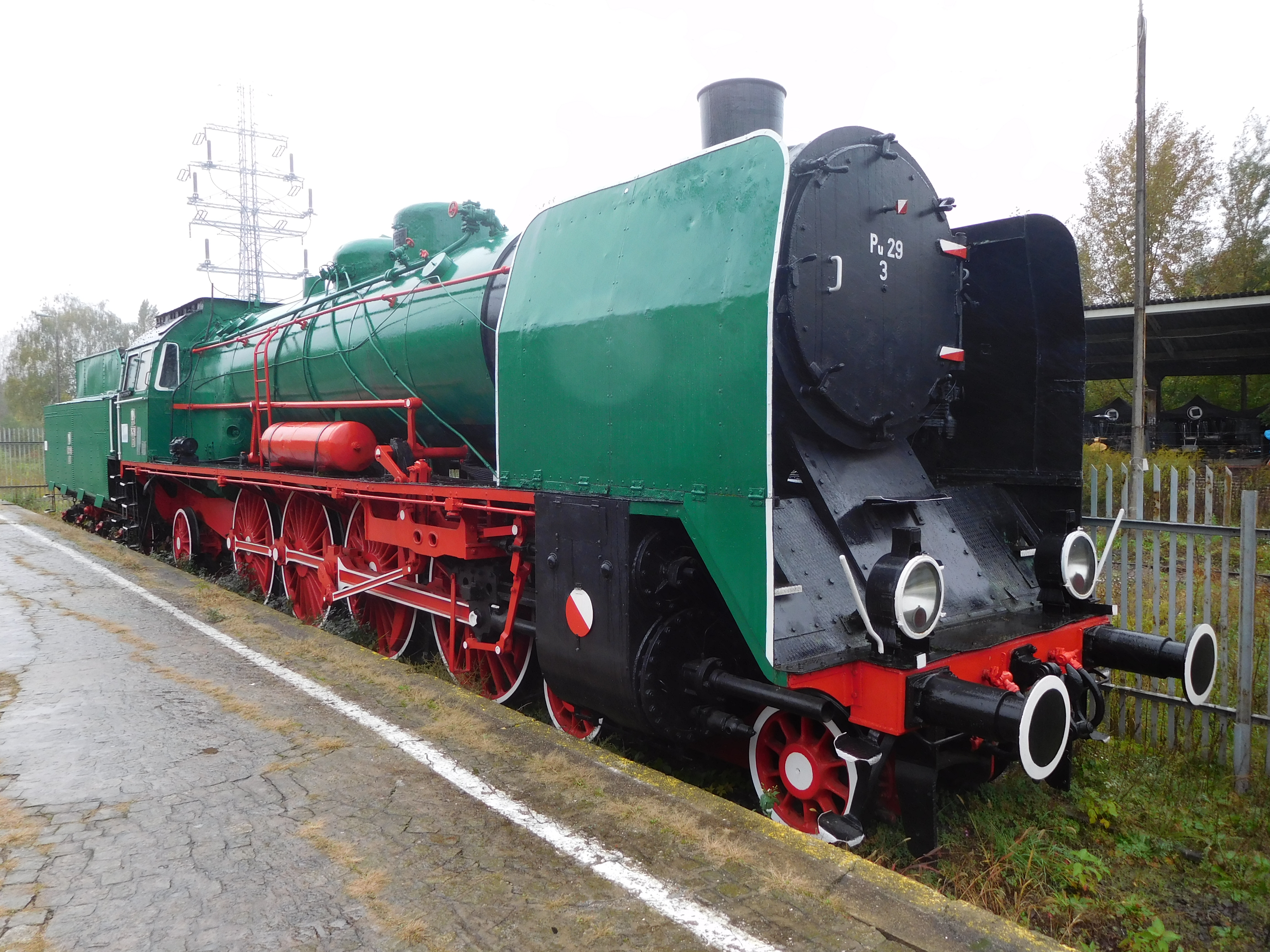 Pu29-3 in Warsaw Rail Museum